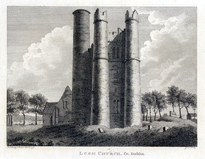 Lush [sic] Church 1791